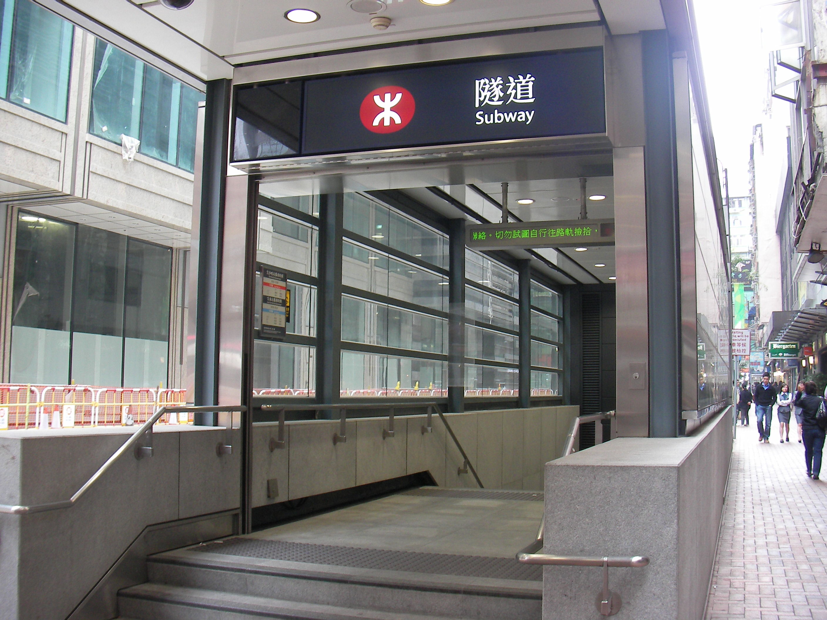 MTR East Tsim Sha Tsui Station Blemheim Avenue Subway Exit N1